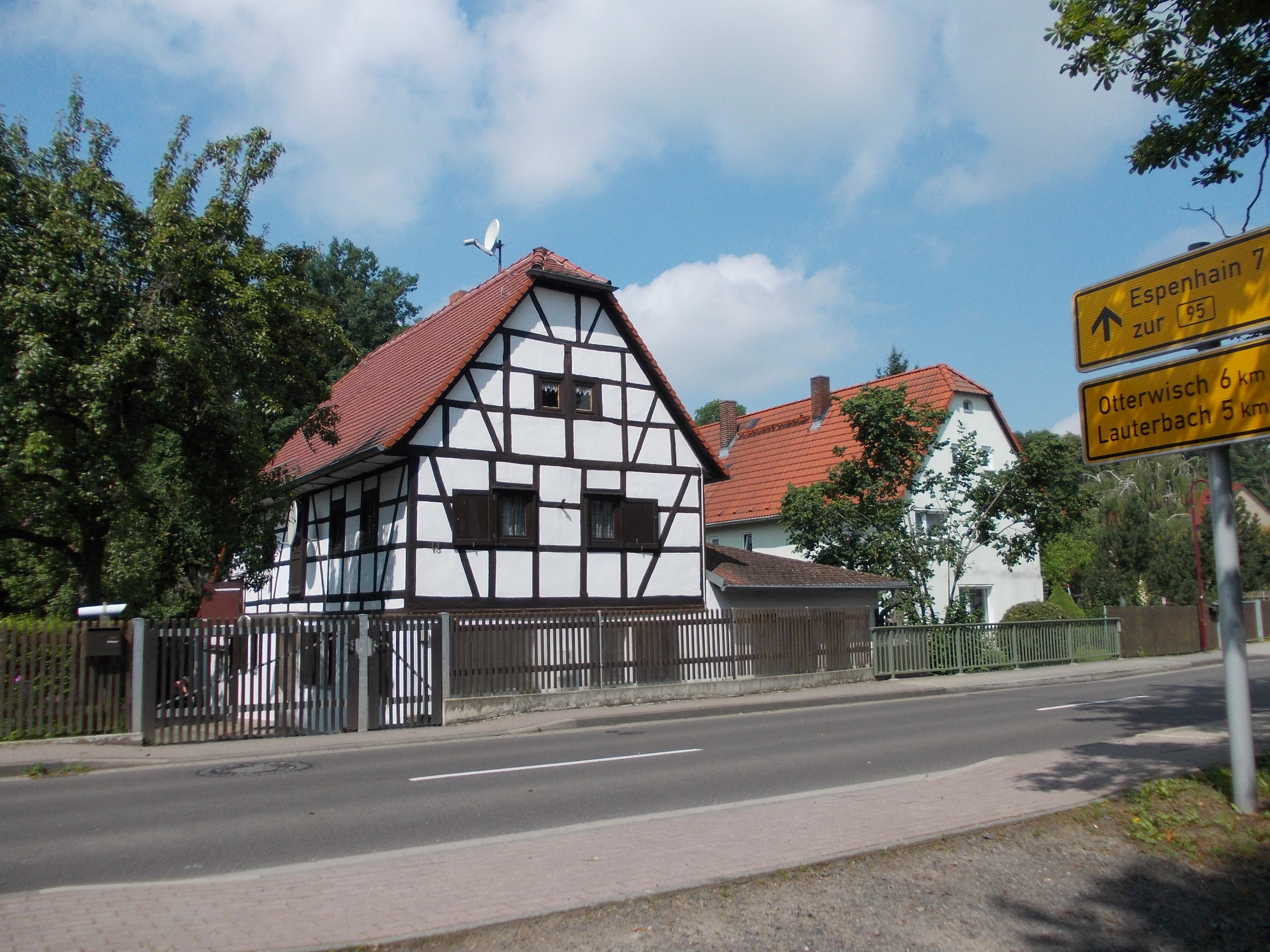 Half-timbered house at Bornaer Strasse 13 in Kitzscher (Leipzig district, Saxony)